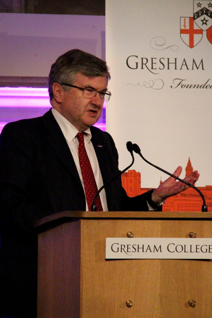 Sir Richard Evans at a Gresham College lecture.